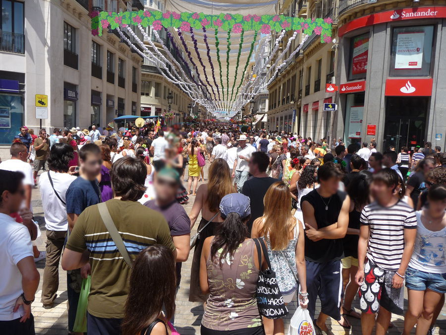 Malaga, Main Street during Feria